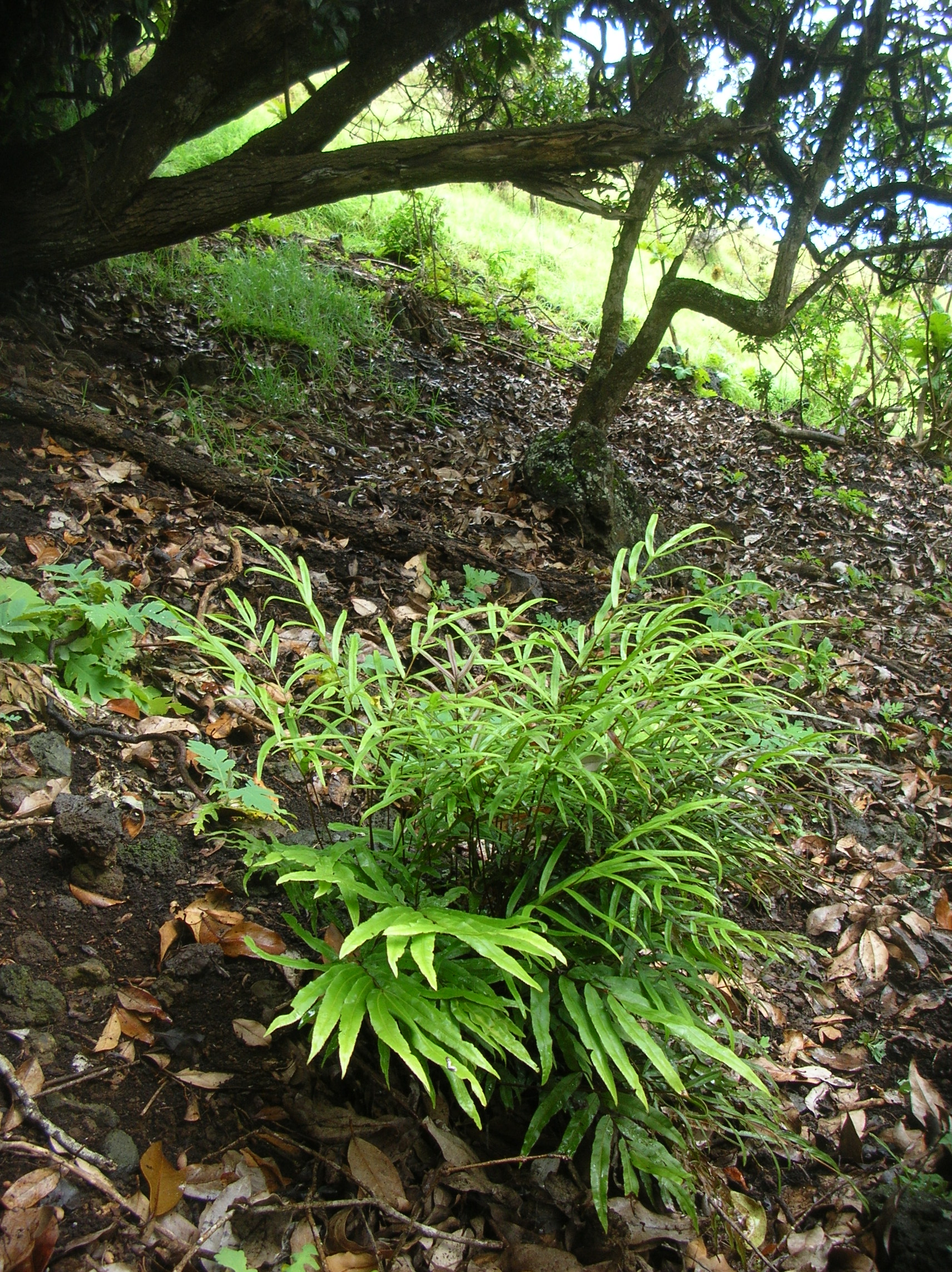 Pteris cretica (habit). Location: Maui, Auwahi